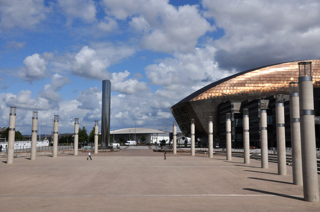 Roald Dahl Plas, The Millennium Centre and Water Tower - Cardiff Bay